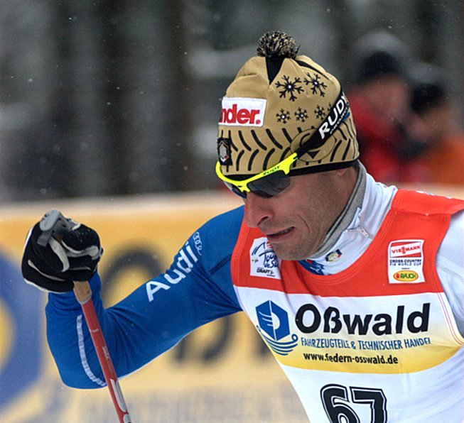 Giorgio Di Centa at the Tour de Ski 2010 in Oberhof